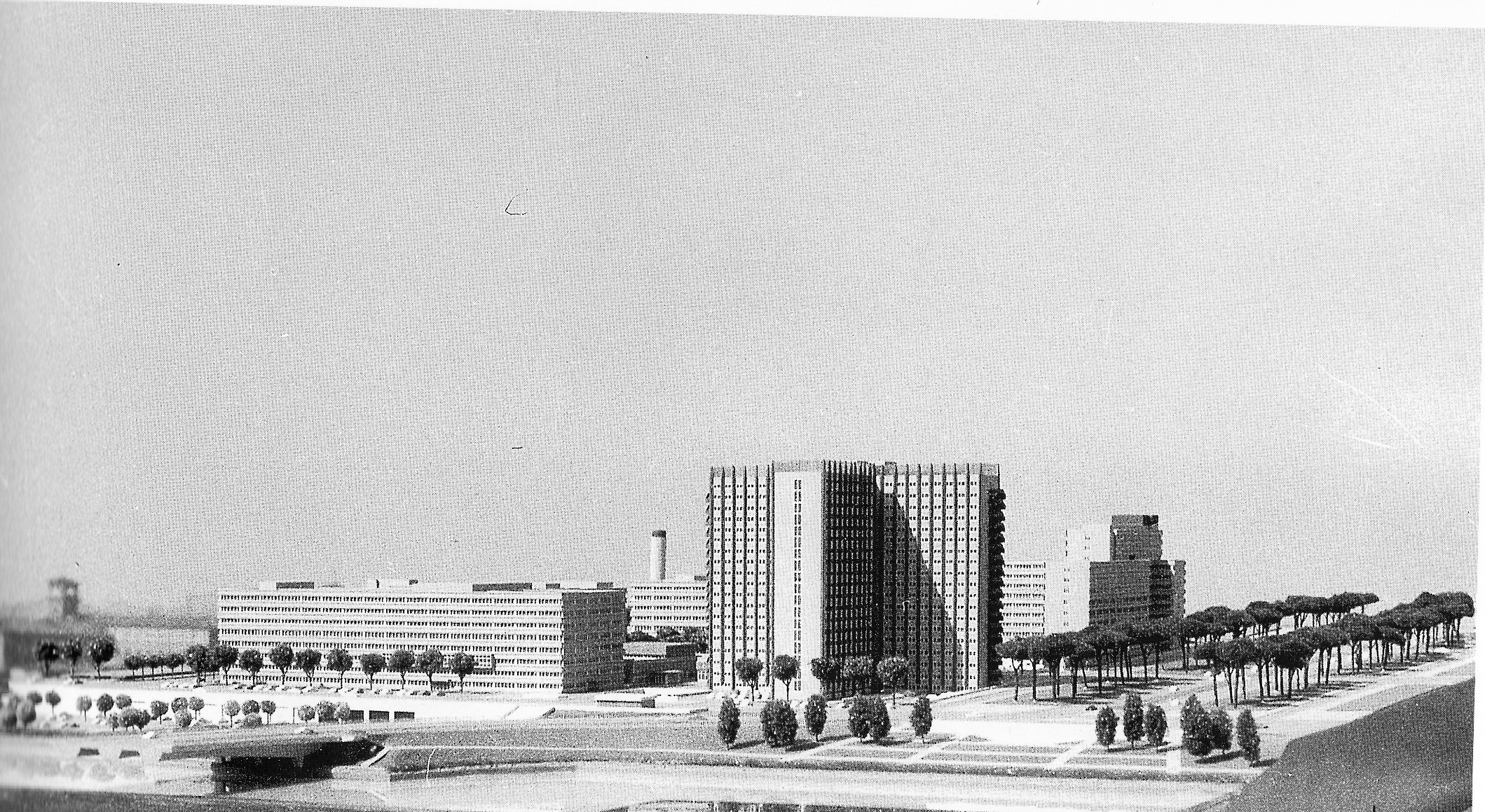 Luigi Vagnetti: Post and Telecommunication Ministry, Rome (EUR), Italy, 1973